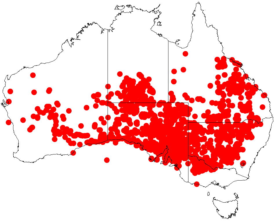 Acacia oswaldii Occurrence data from Australasia Virtual Herbarium downloaded from on 8 December 2018